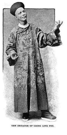 Chung Ling Soo (William Ellsworth Robinson)